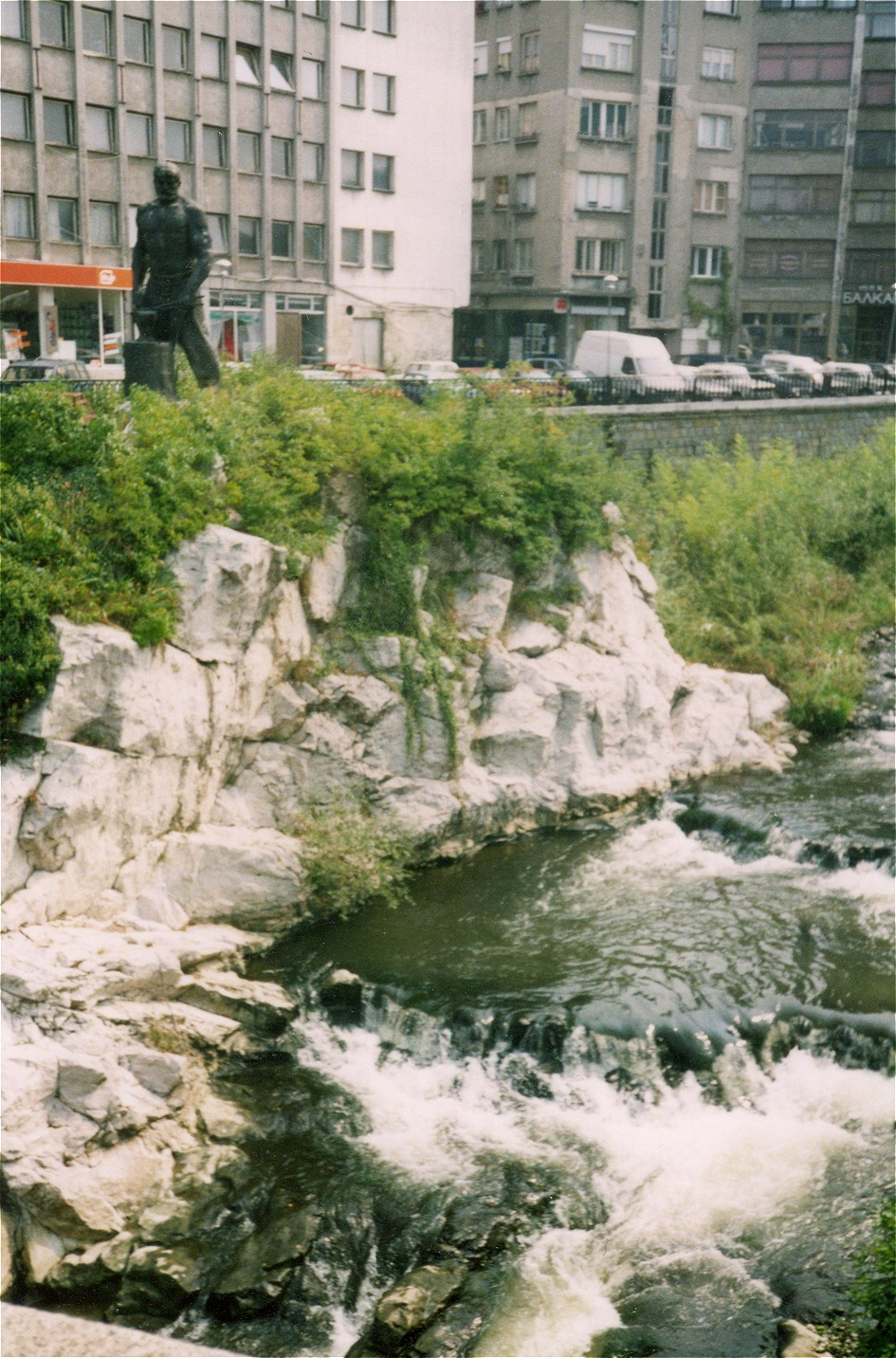 Racho Kovacha in Gabrovo, Bulgaria.